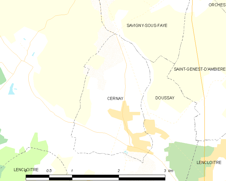 Map of French municipality Cernay